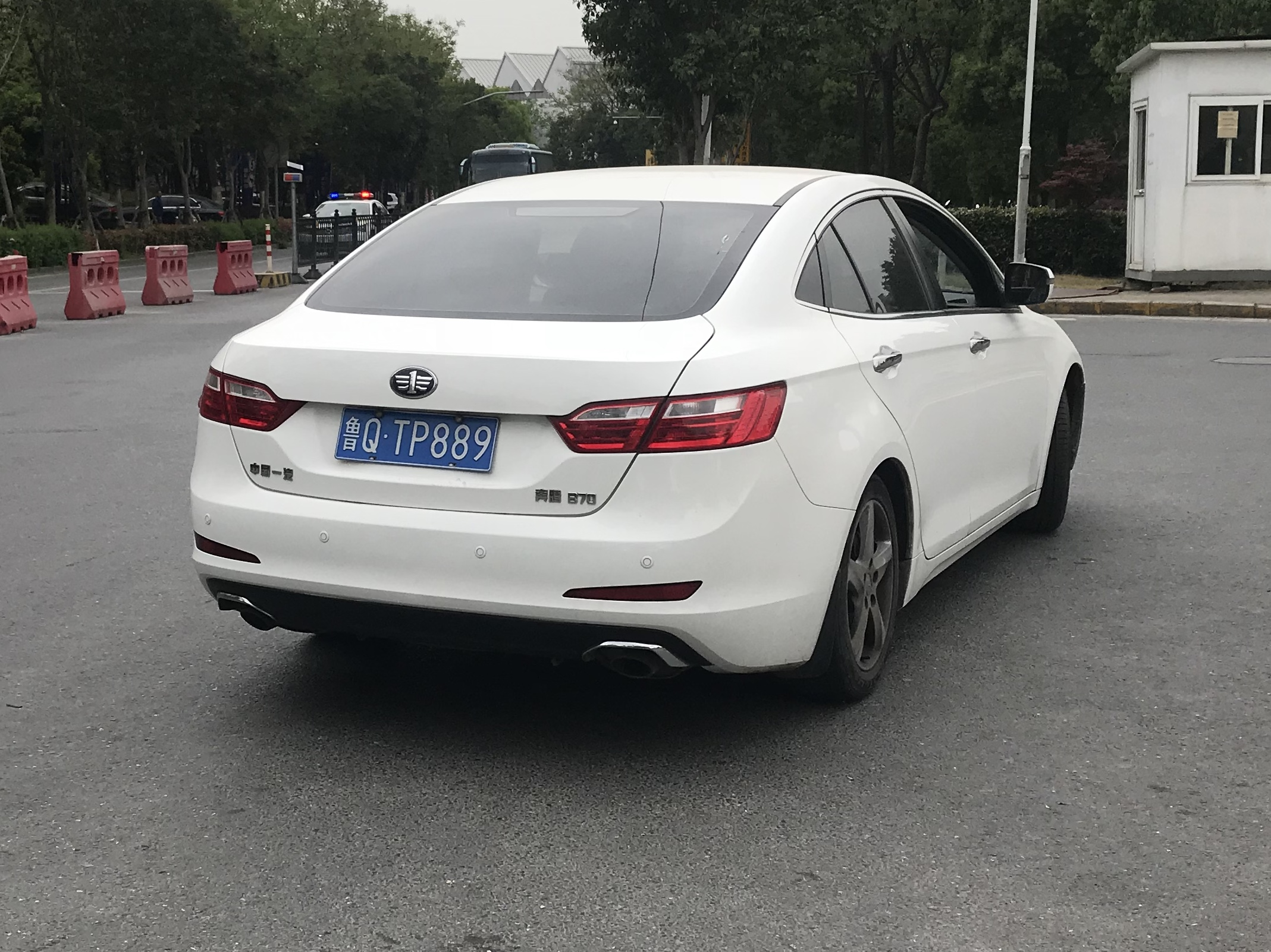 Besturn B70